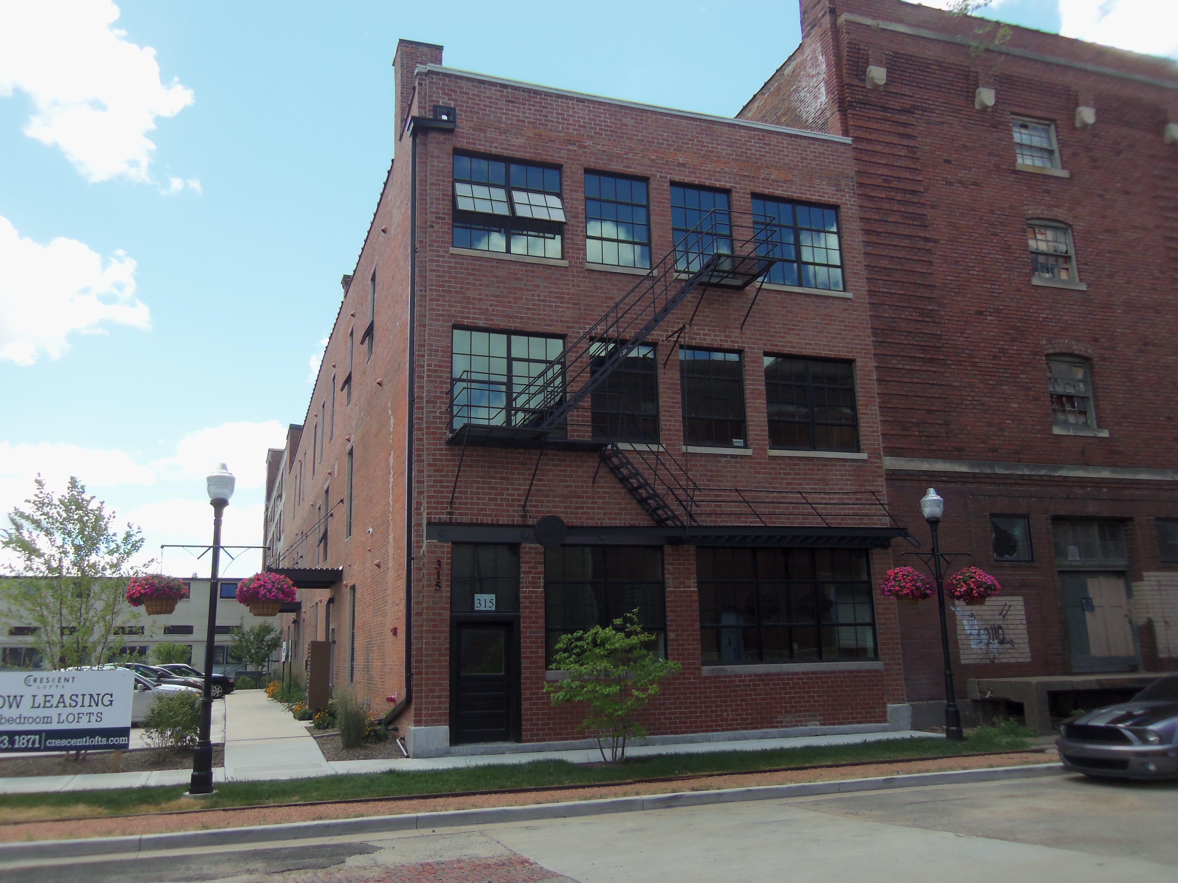 Kerker Lofts in Davenport, Iowa. It is a contributing property in the Crescent Warehouse Historic District, which is listed on the National Register of Historic Places.